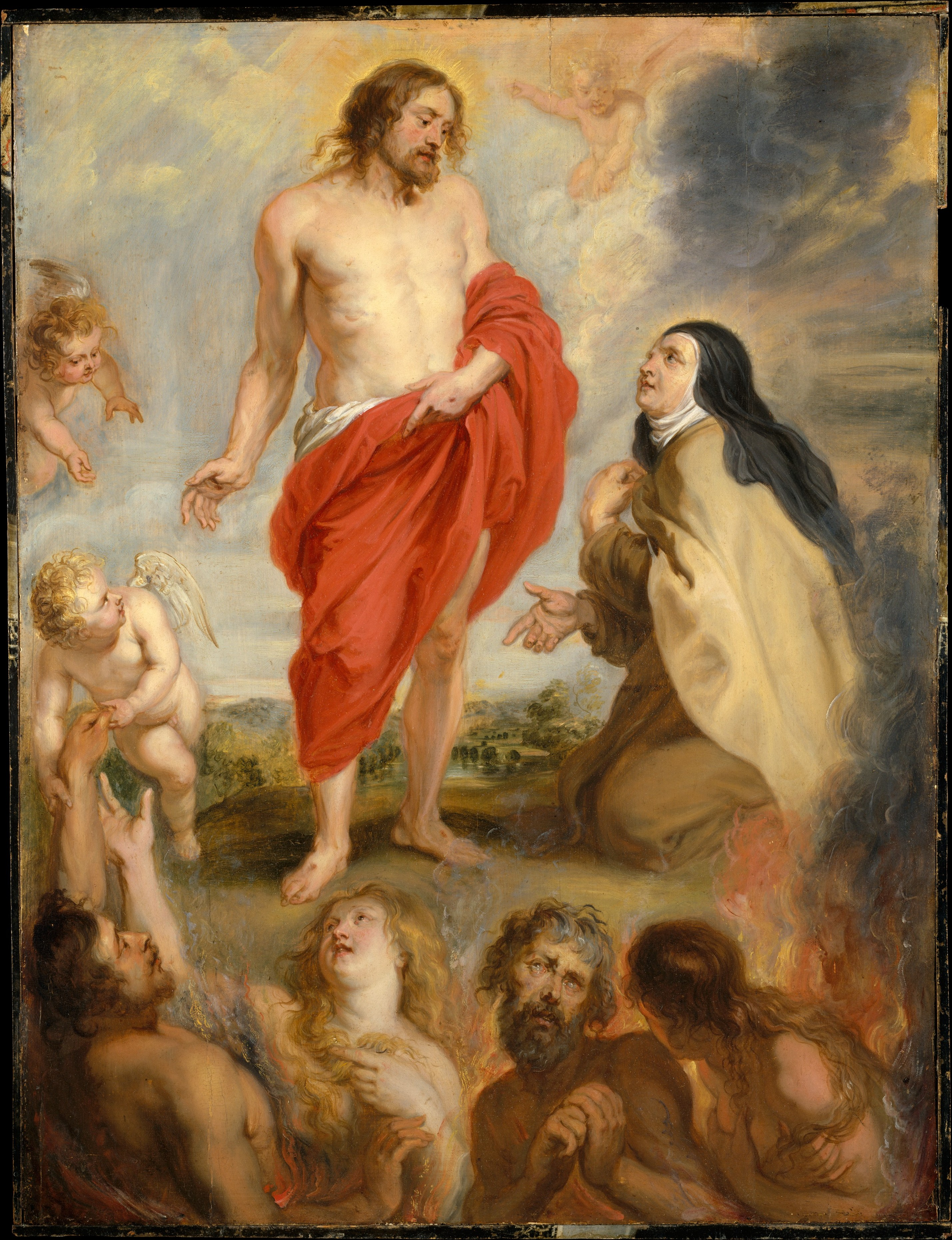 Teresa of Ávila